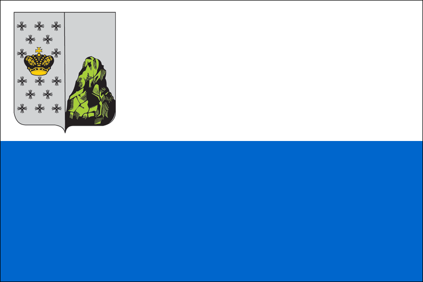 Flag of Valday, Novogord Region, Russia